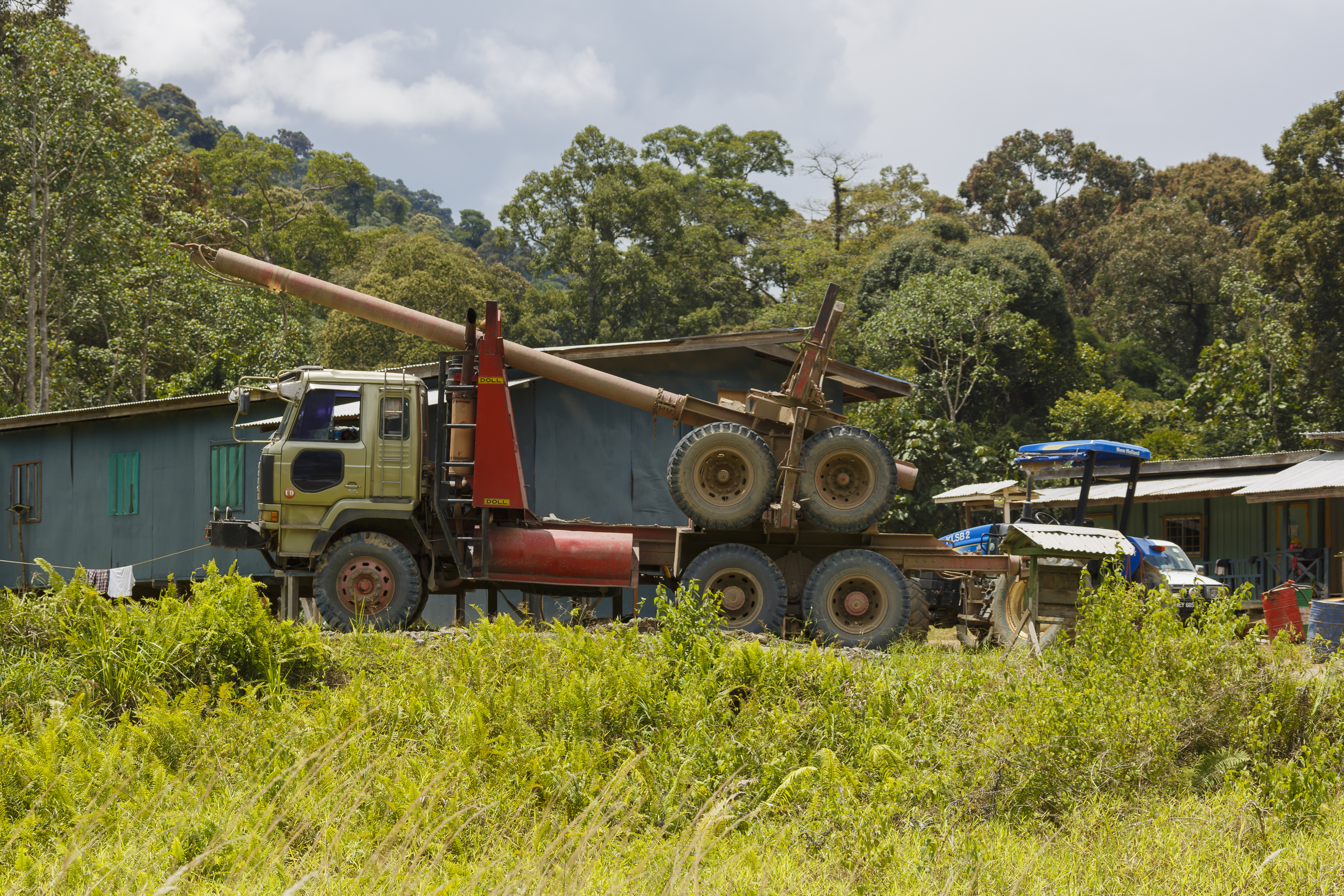 District Tawau, Sabah: Timber truck with piggyback trailer at the logging Camp of Asiatic Lumber Industries SDN BHD at Mile 43 of Kalabakan-Sapulot-Road in the direct neighbourhood to Maliau Basin